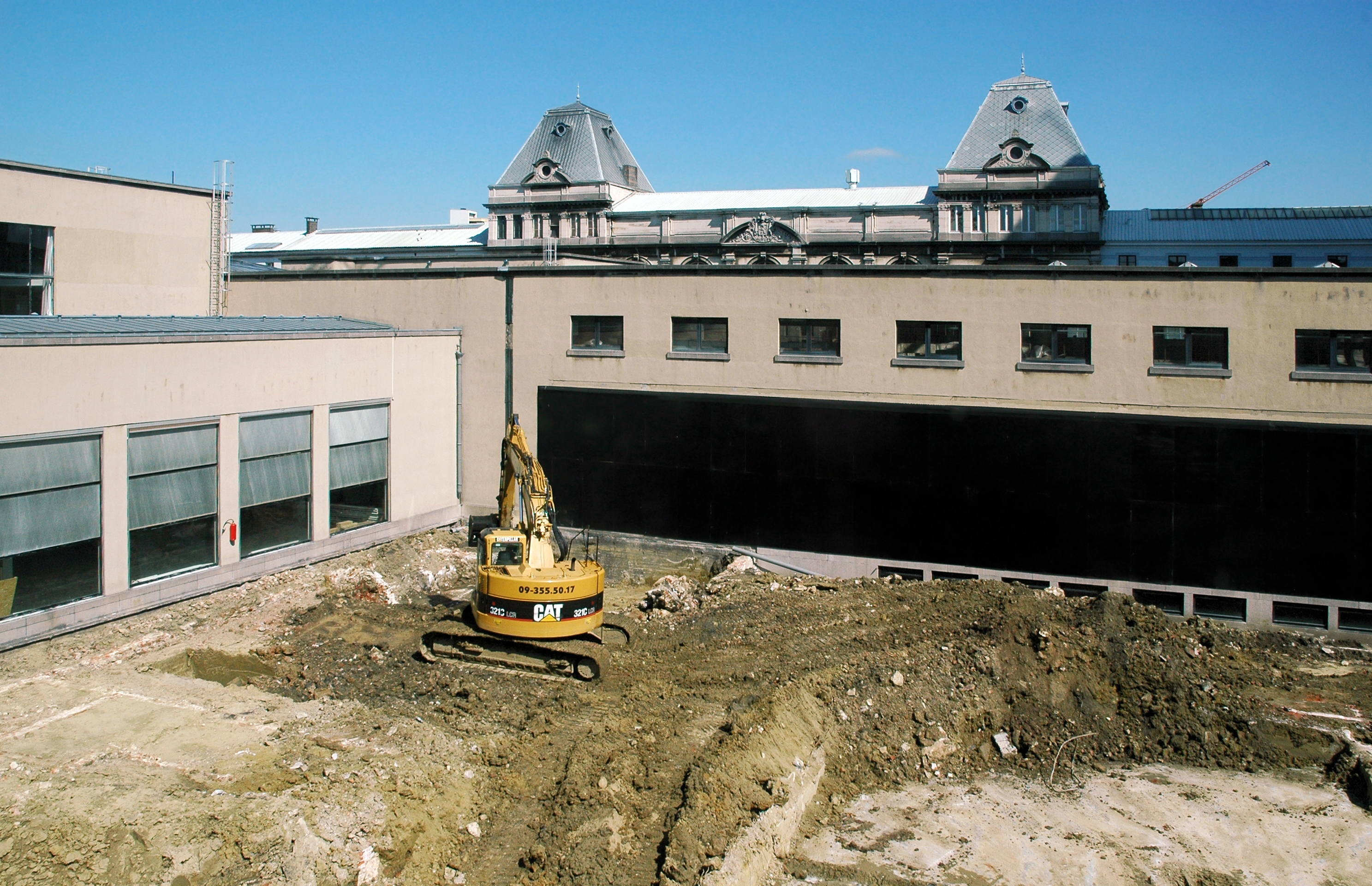 The courtyard between the Boekentoren and the Blandijn, currently under construction; an underground book depot is being built. Picture taken from the Blandijn.